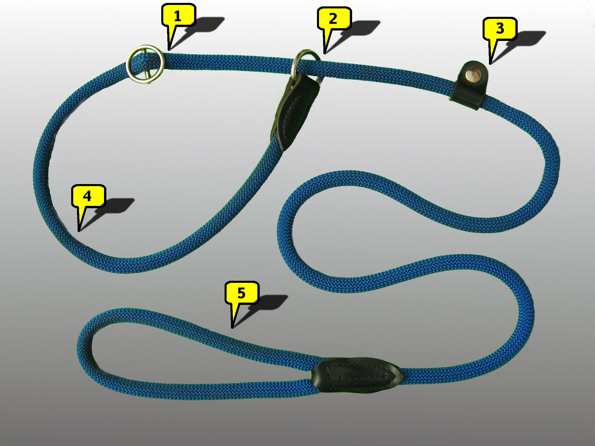 Parts of a sliplead.